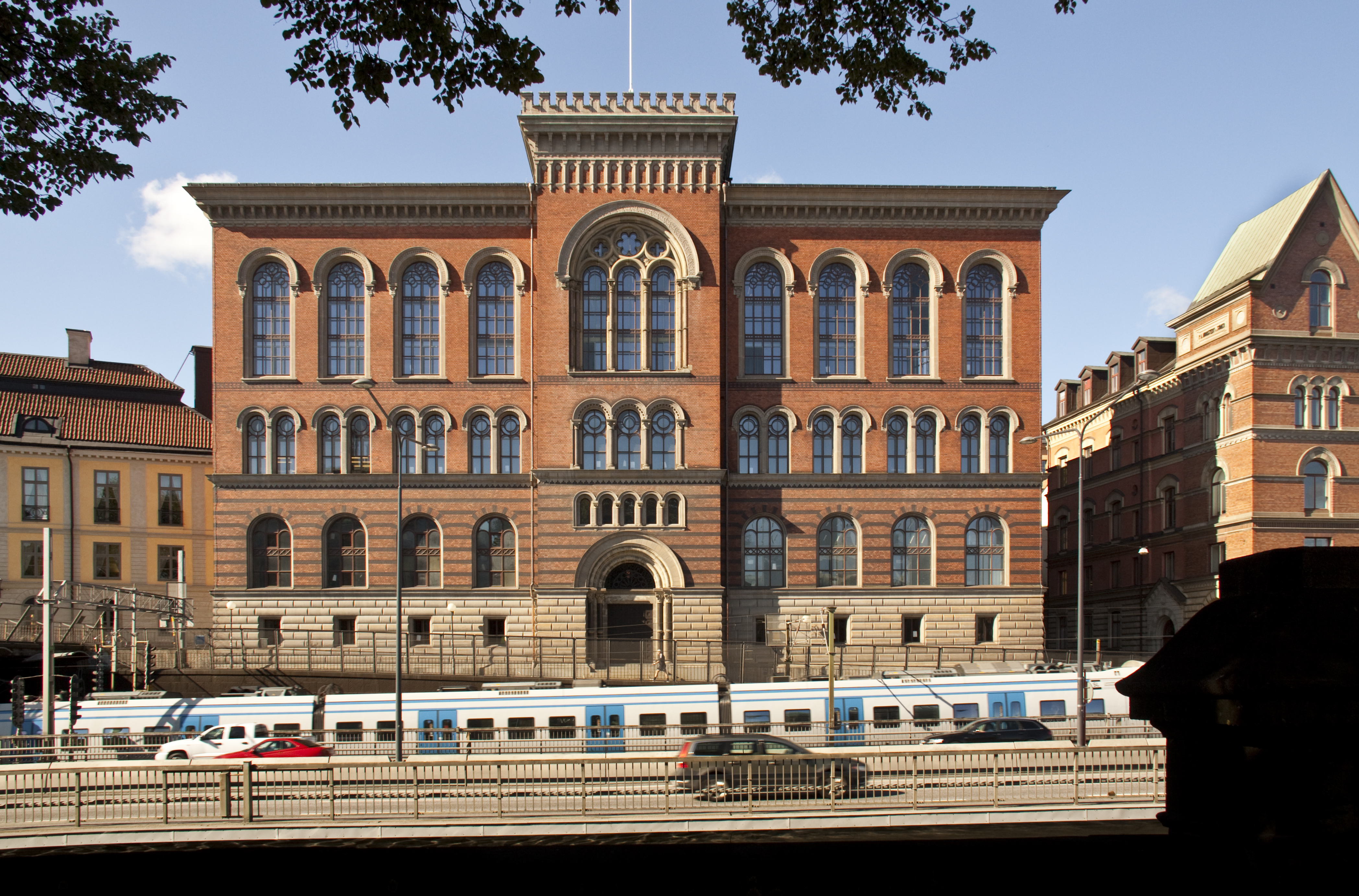 Old National archive building, from 1891, Riddarholmen, Stockholm, Eastern side.